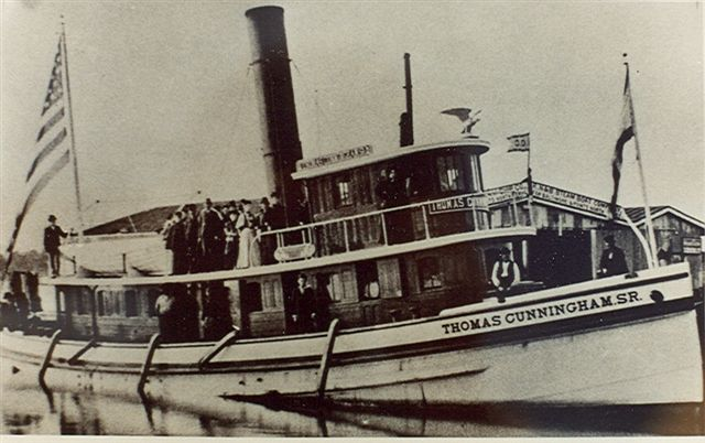 Picture of Thomas Cunningham Sr. on or about her inaugural trip.